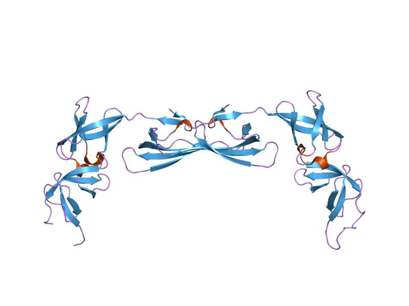 Cartoon representation of the molecular structure of protein registered with 1ueb code.